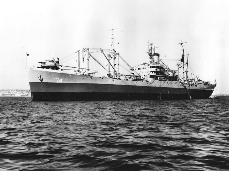 The U.S. Navy attack cargo ship USS Oberon (AKA-14) at anchor, circa the later 1940s. Note the two triple sets of kingposts, one fore and one aft, the tall center kingposts in each supporting the ship's 40-ton booms.